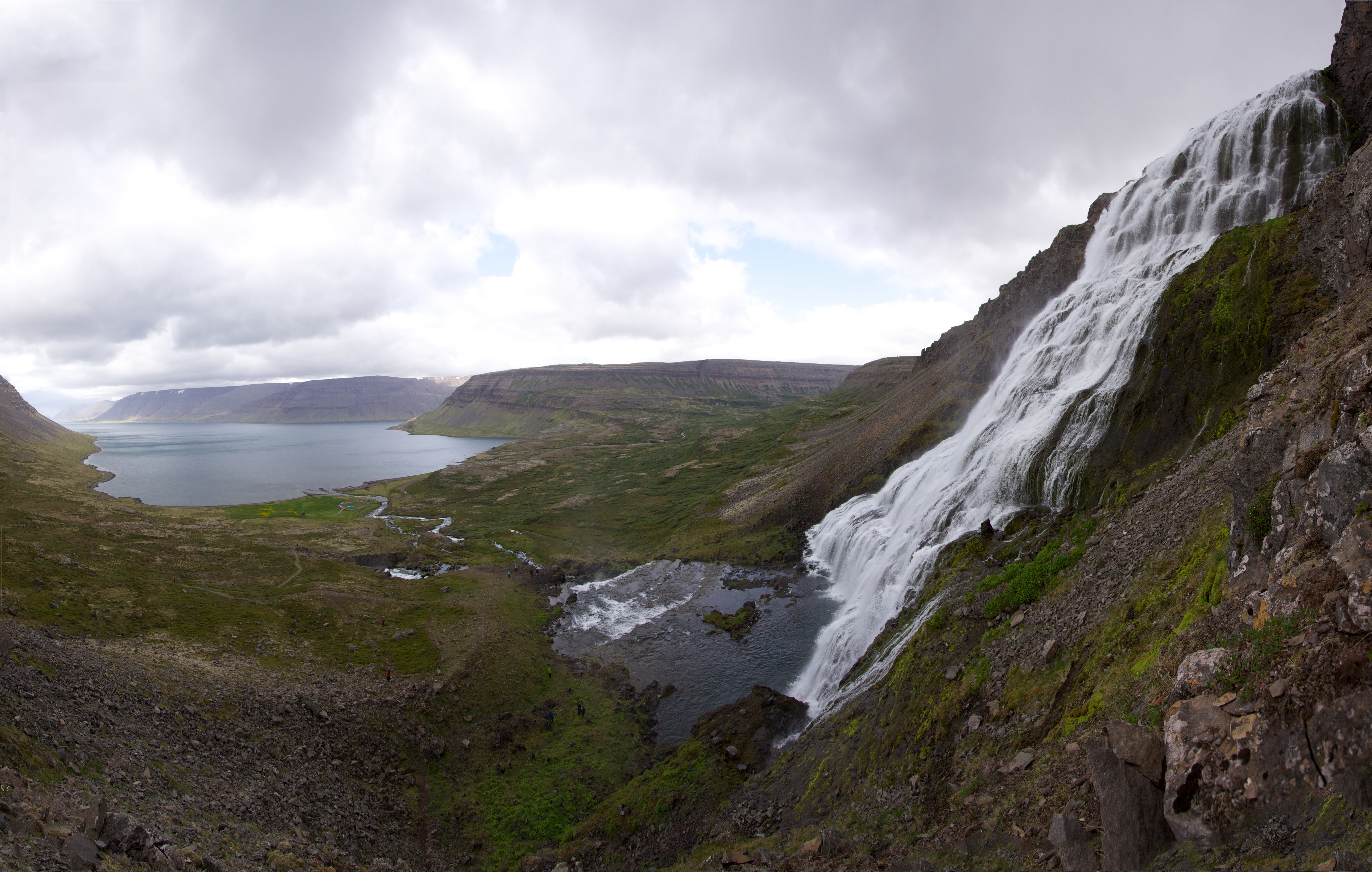 The Dynjandi waterfall in the Vestfjords, Iceland